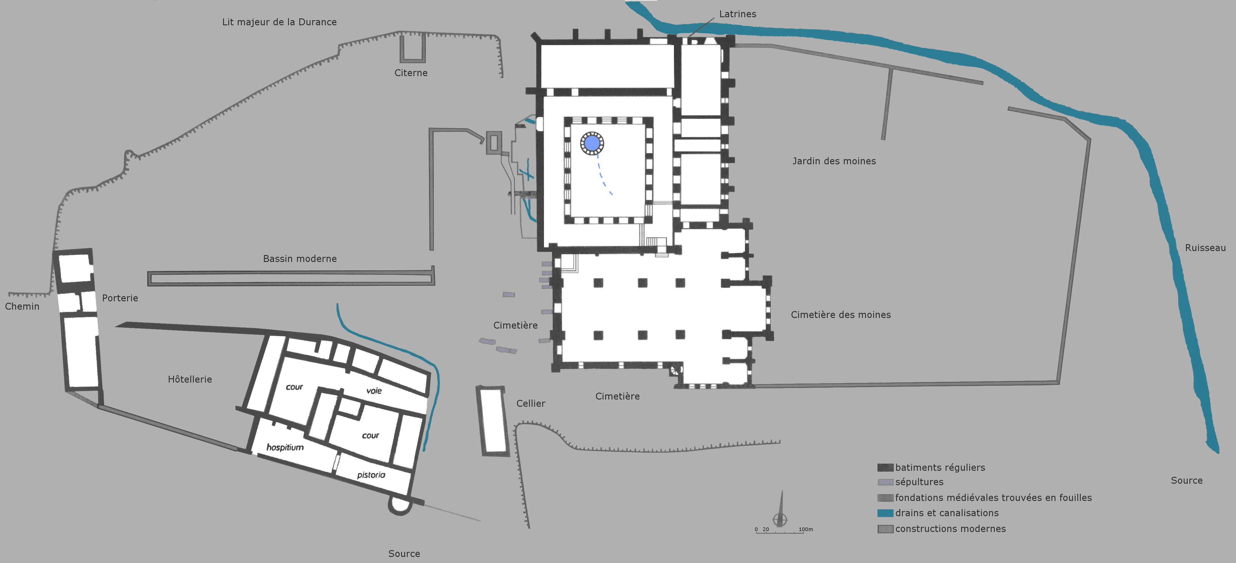 Drawing of the Silvacane abbey. Picture worked from a photo of a text panel.